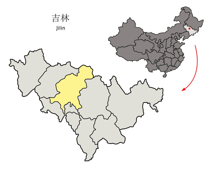 Location of Changchun Prefecture (yellow) within Jilin Province of China Map drawn in november 2007 using various sources, mainly : Jilin Province administrative regions GIS data: 1:1M, County level, 1990 Jilin Counties map from